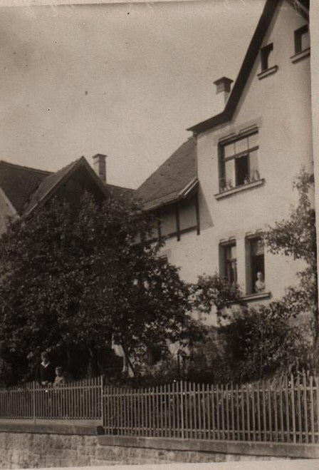 Franz Klinglers home in Coburg, Seidmannsdorfer Straße, about 1929